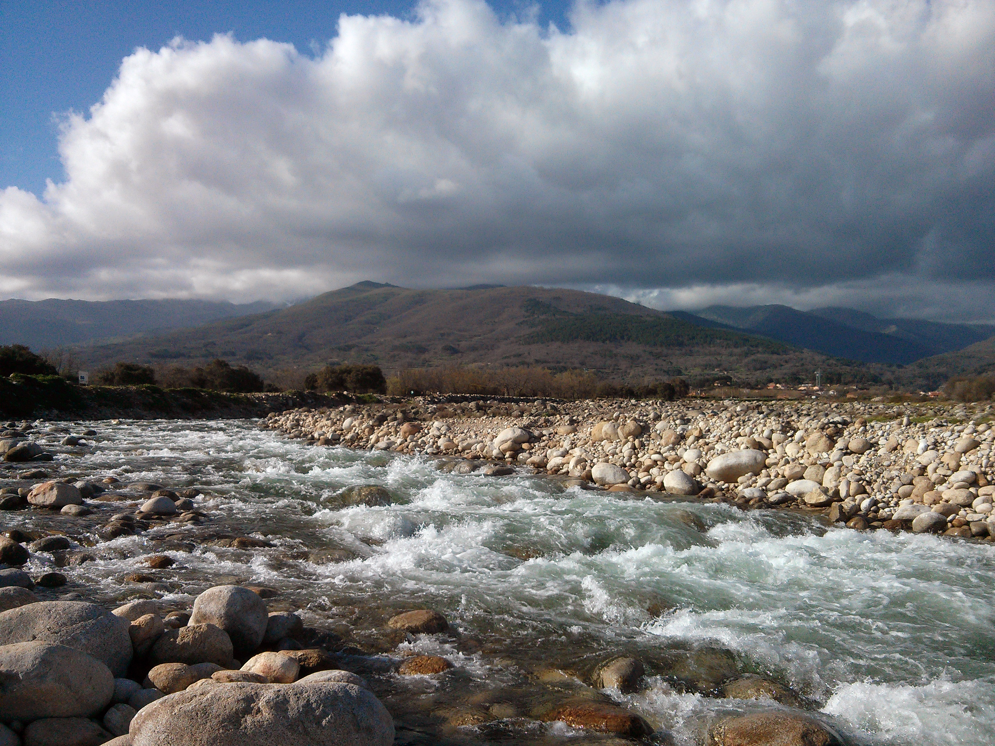 Candeleda, Ávila, Castile and León, Spain.